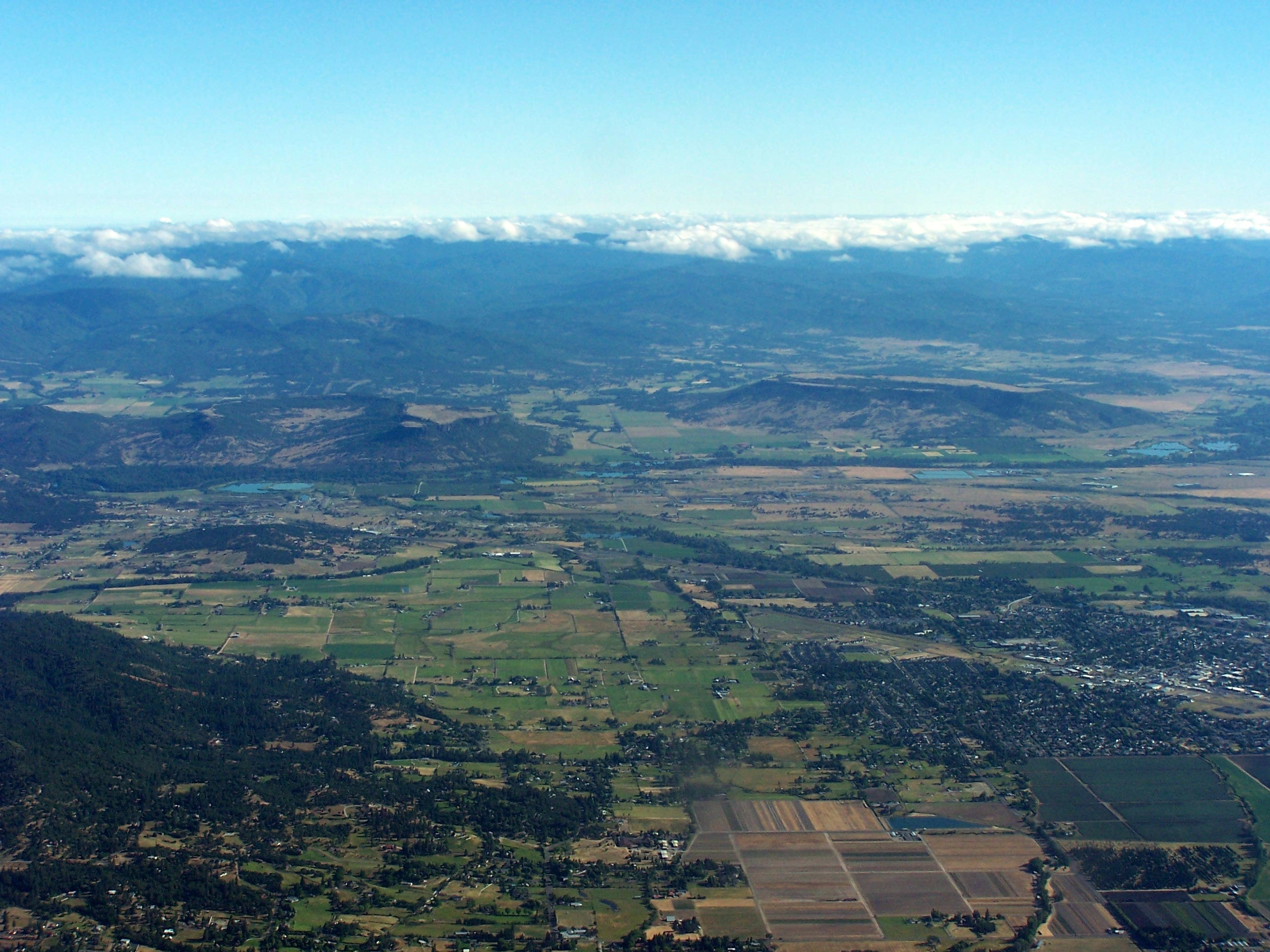 A portion of the Rogue Valley, including Central Point in the foreground, the Table Rocks and Rogue River in the middle, and the western Cascades in the background.